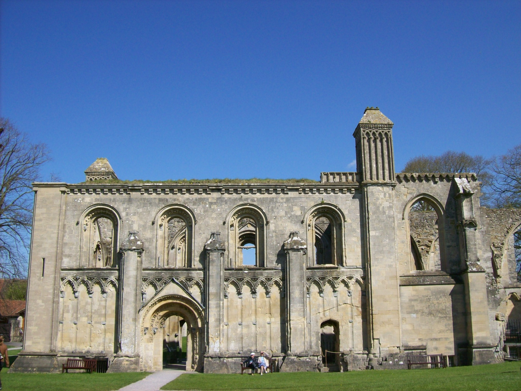 The Lady chapel of Glastonbury abbey, Somerset, seen from the south